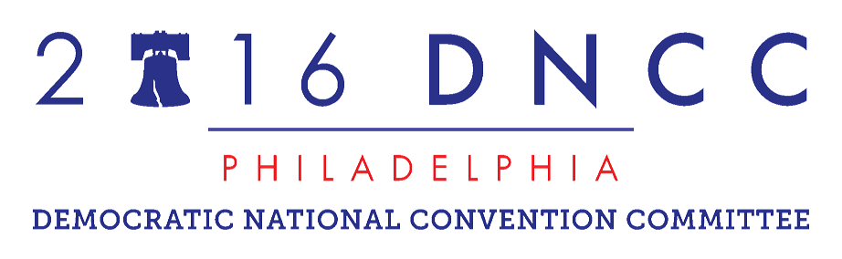 Democratic National Convention 2016.